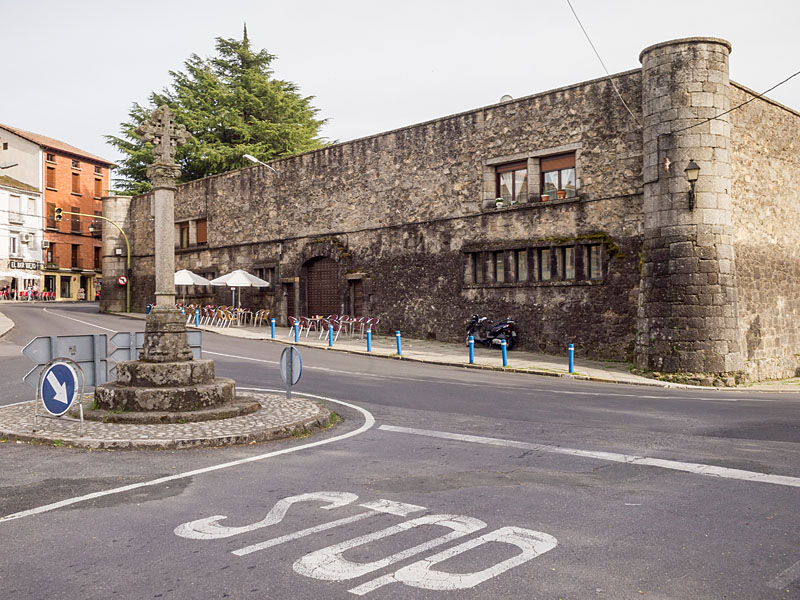 Antigua cárcel.